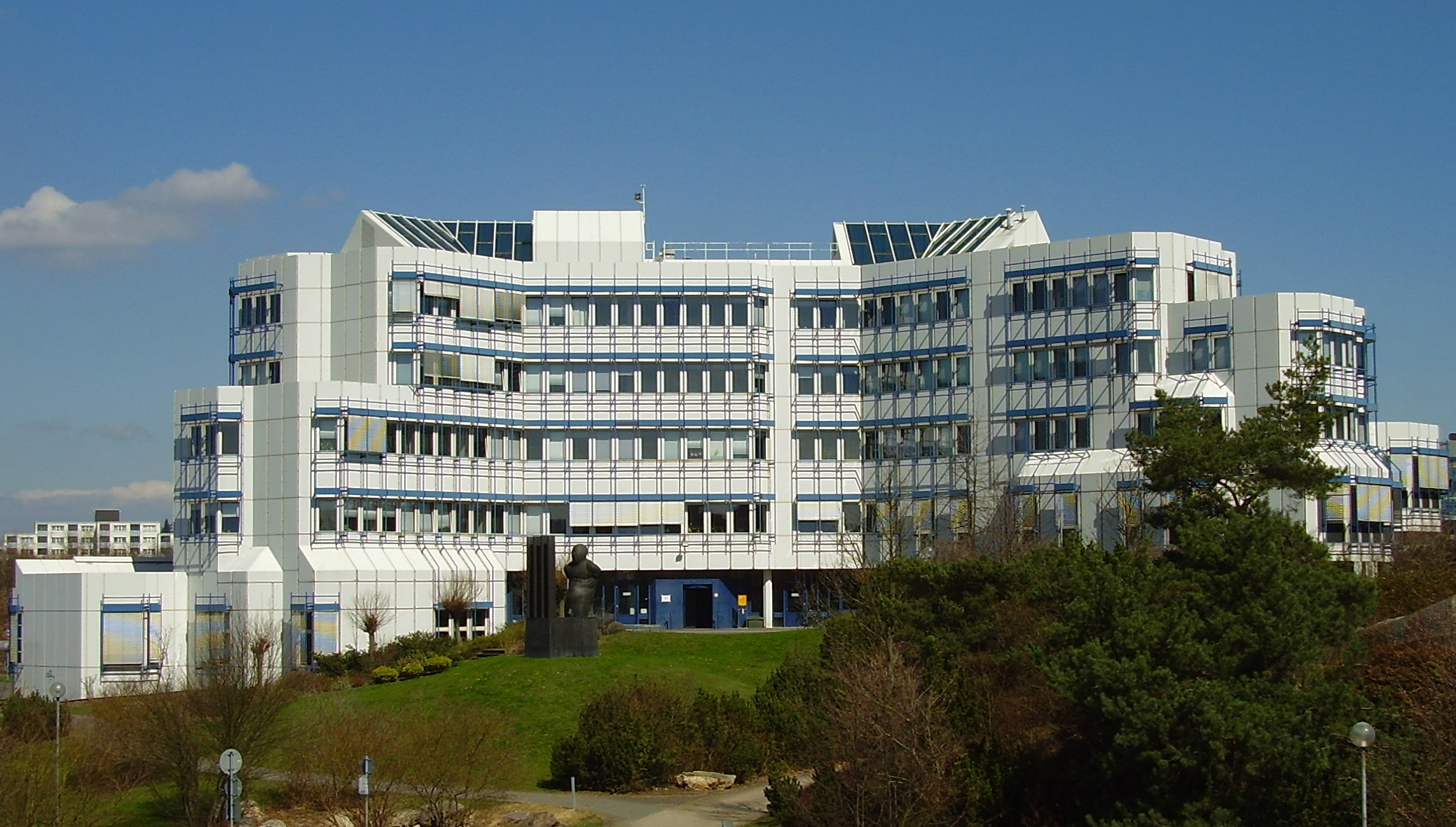 University of Trier, Building D. Own photo